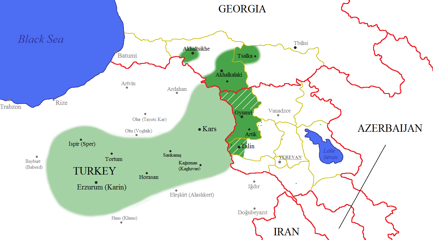 Karin dialect area spoken: in 1914 (light green + dark green) today (dark green only)